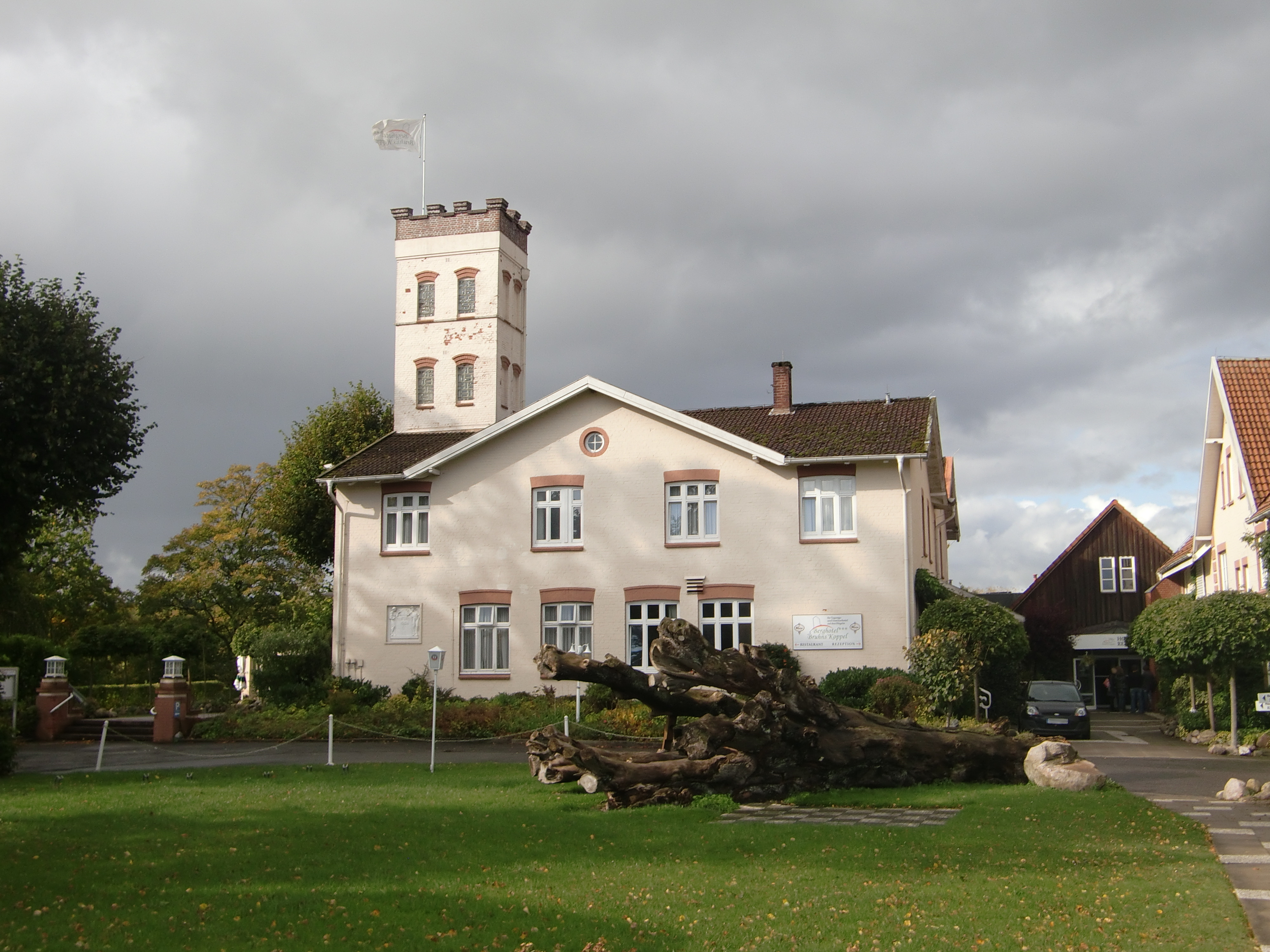 The front view of „Berghotel Bruhns`Koppel“ (mountain hotel Bruhns`Koppel) in Bruhnskoppel which is a small part of Malente.